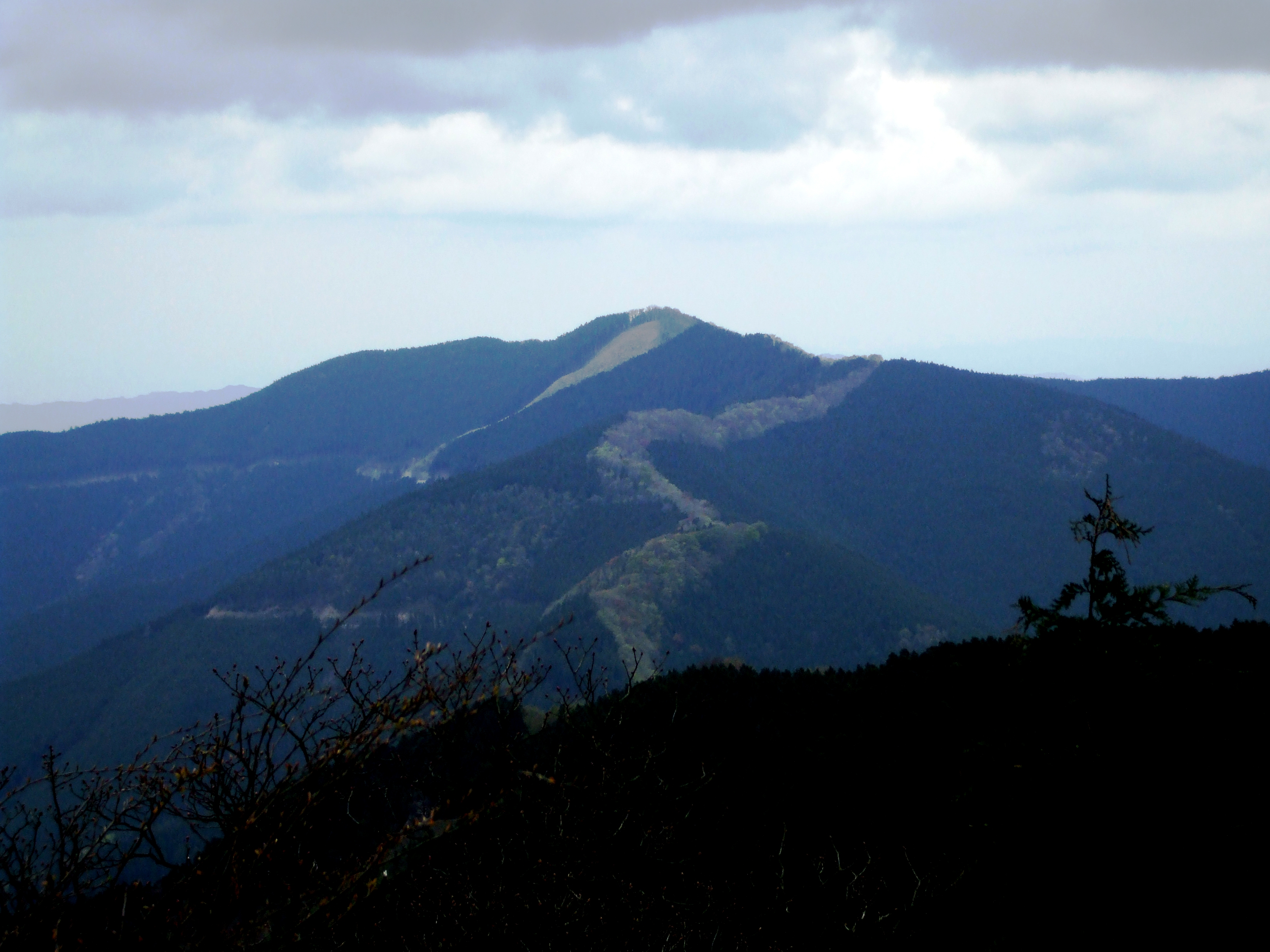 Mount Shisuniwa seen from the south. Takan from Mount Otenjo, in Nara Prefecture, Japan.